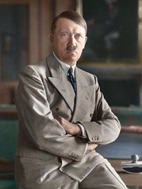 Adolf Hitler sitting on his desk in his Berghof residence, cropped photo.